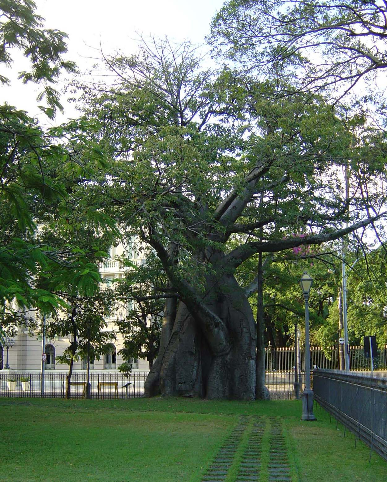 Baobab at Praça da República, Santana, Recife, possible source of inspiration for Saint Exupéry in the Little Prince.